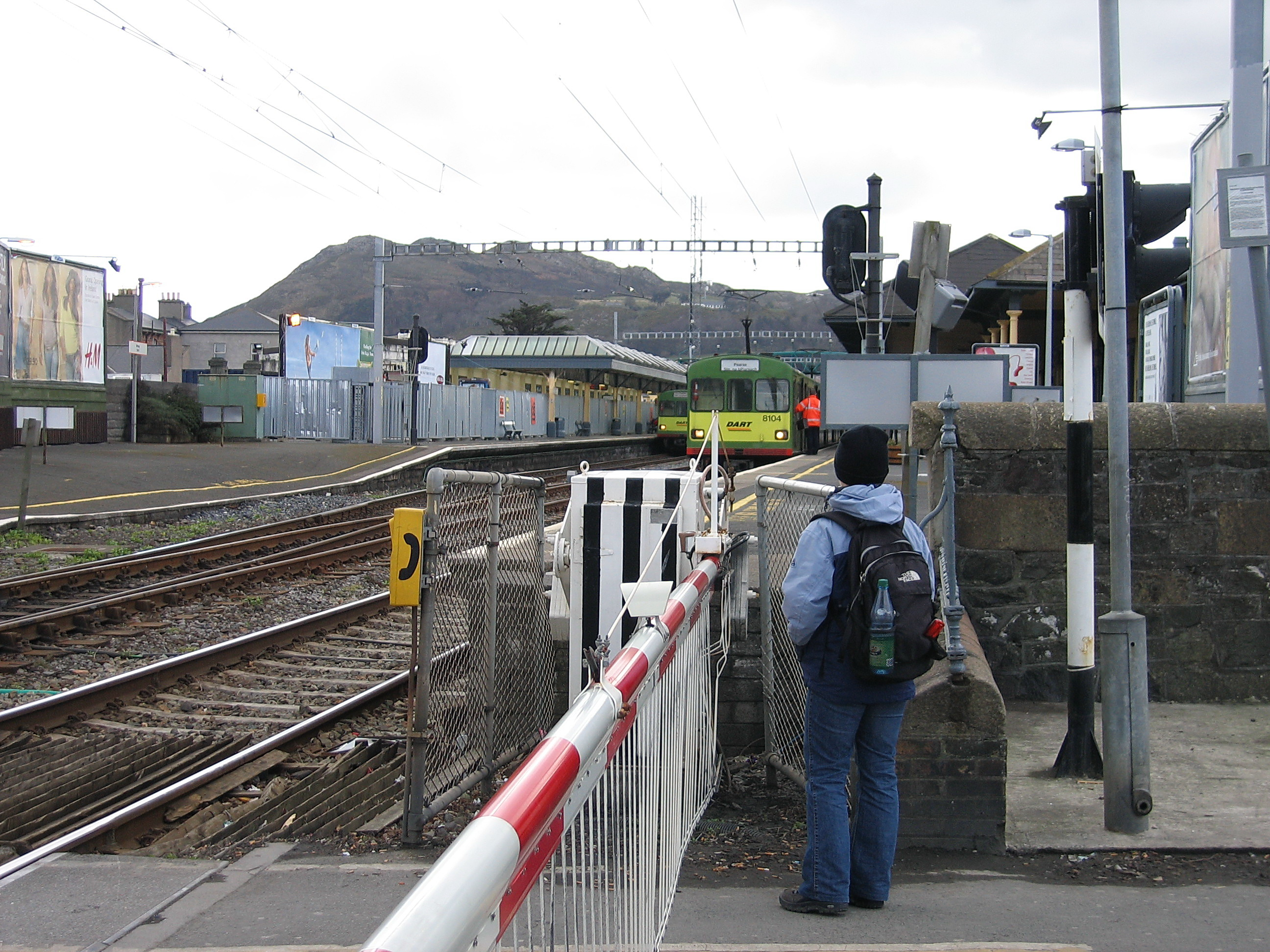 Level crossing and IÉ 8100 Class trains at Bray railway station, Co. Wicklow, Ireland